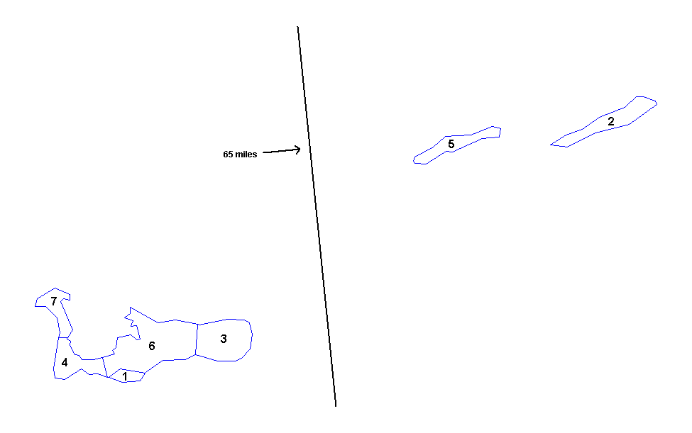 Map of the districts of the Cayman Islands. Created by Rarelibra 18:20, 31 March 2006 (UTC) for public domain use. Created using MapInfo Professional v7.5 and various mapping resources.